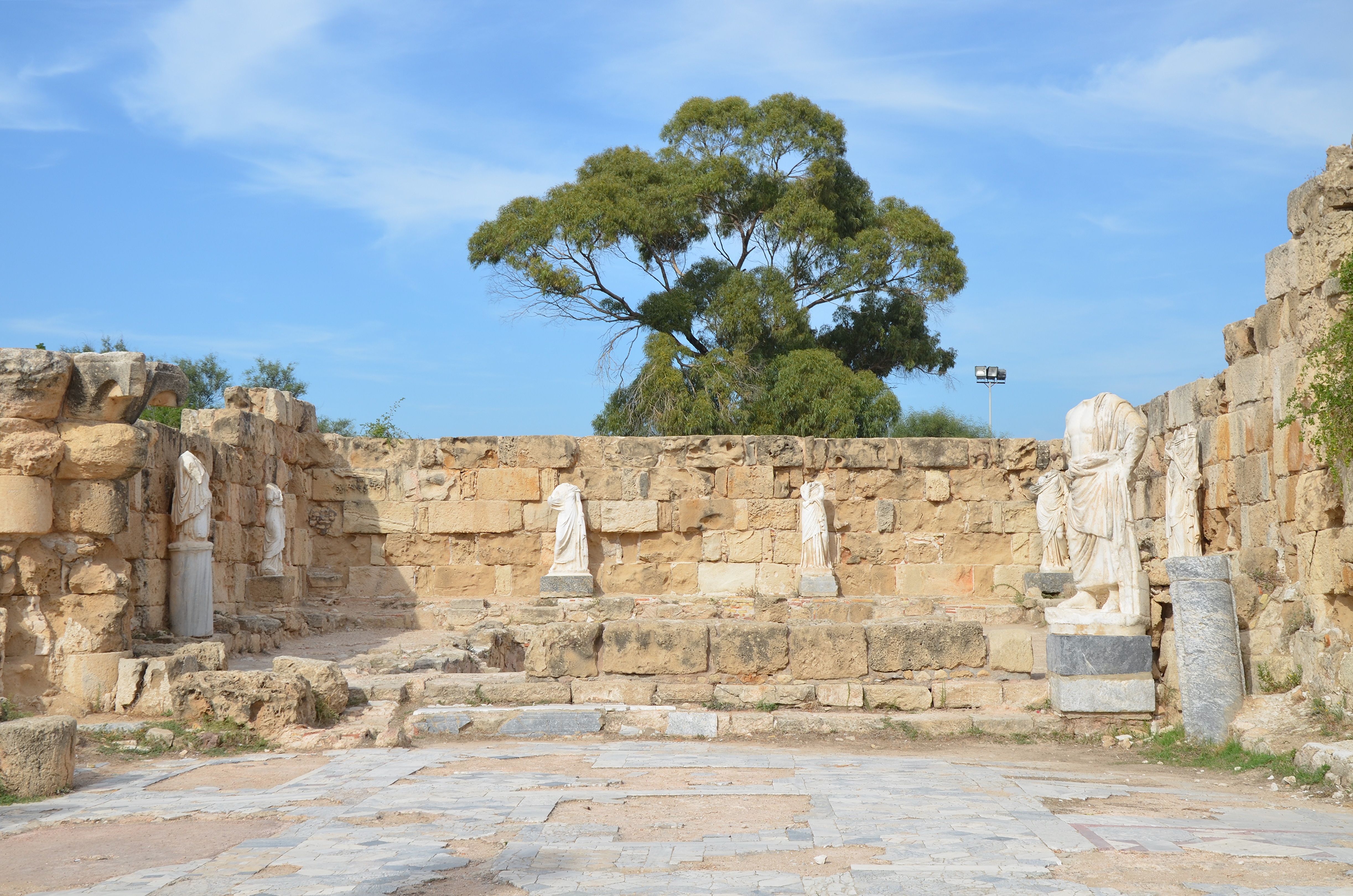 Marble pool at NE corner of the Gymnasium's portico surrounded by headless statues dating back to the 2nd century AD (Trajanic/Hadrianic), Salamis, Northern Cyprus